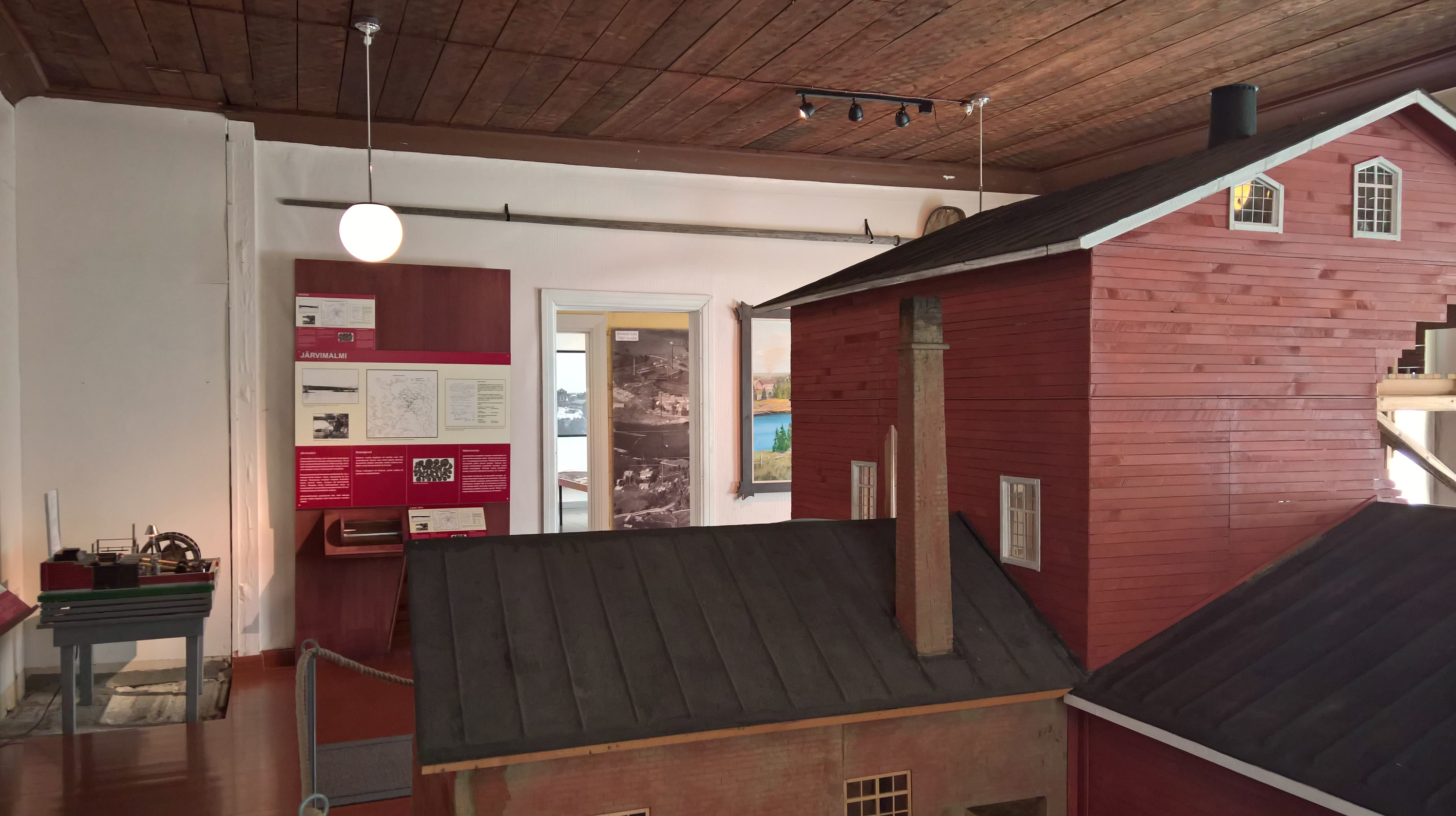 Möhkö ironworks museum 2016